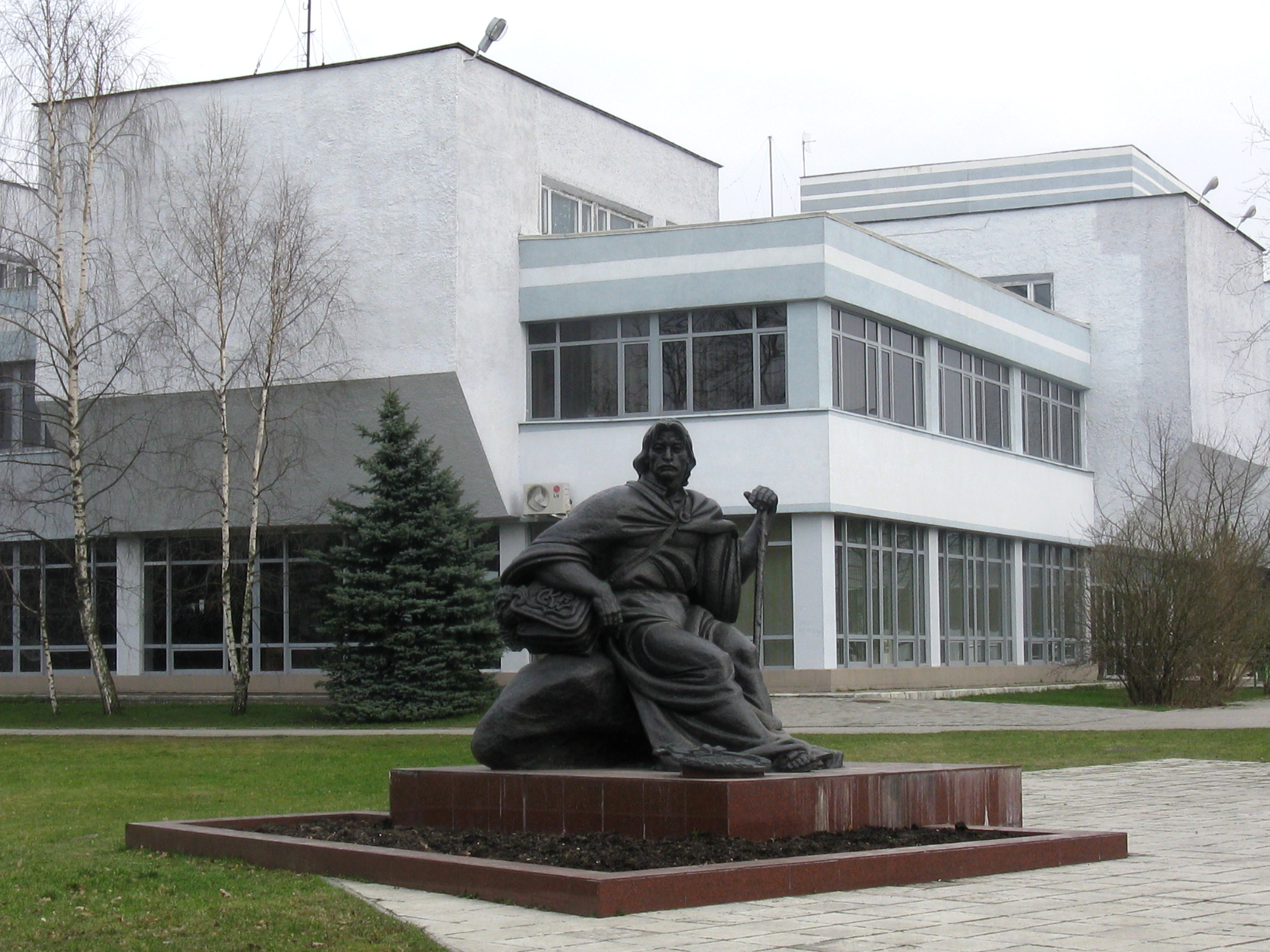 Statue of Francišak Skaryna in front of the building of Mathematics and Physics department of I. Kant State University of Russia.